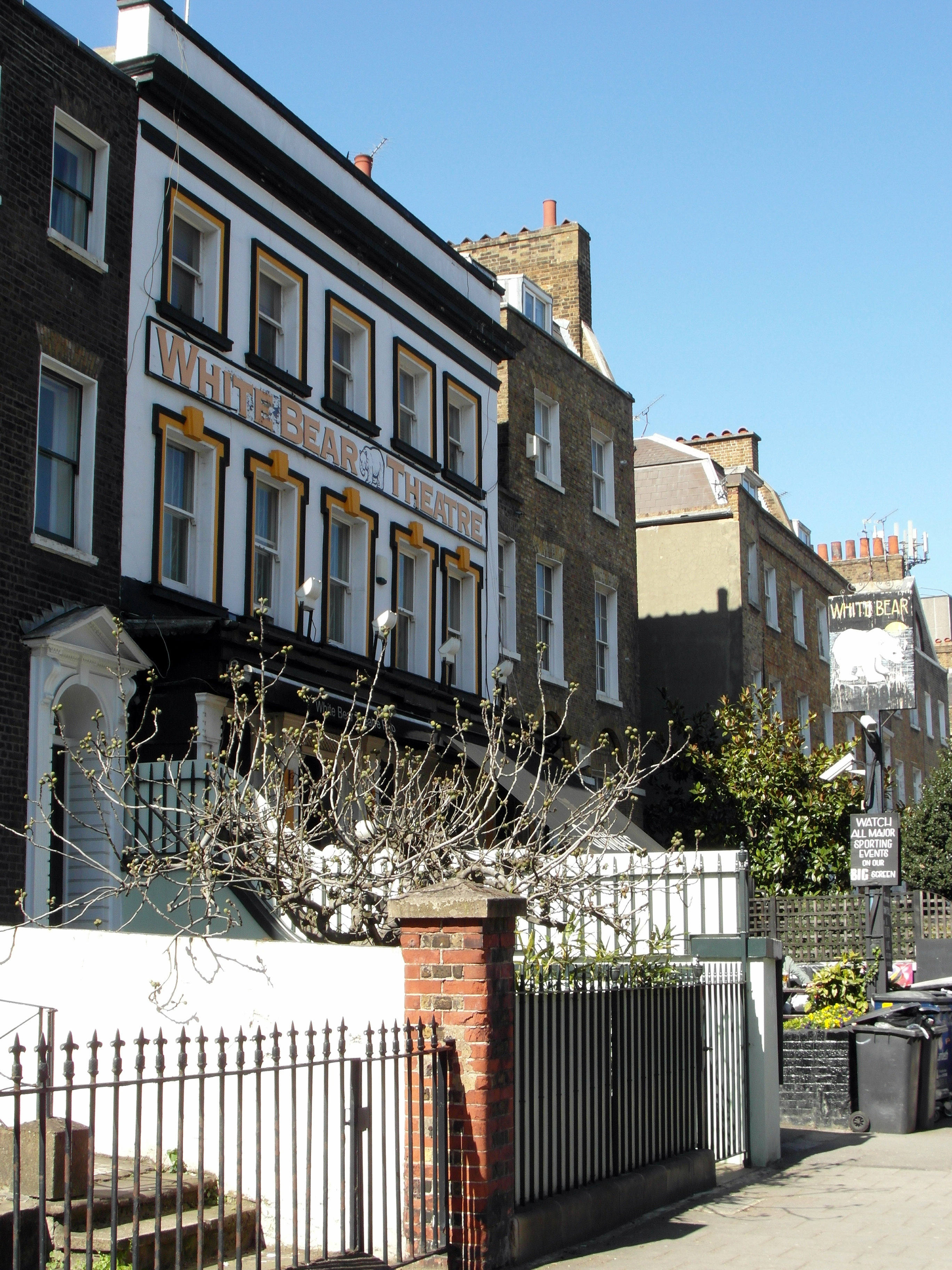 138 Kennington Park Road, Lambeth, London